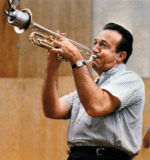 Publicity photo for the Wild About Harry! studio album released in 1957 by Capitol Records, showing Harry James playing trumpet in the Capitol studios in Hollywood, CA with what appears to be a Harmon mute.